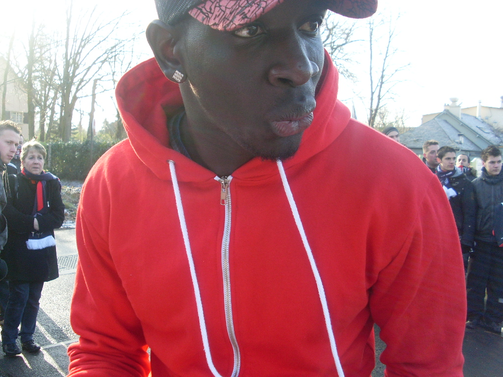 Football player Mamadou Sakho.